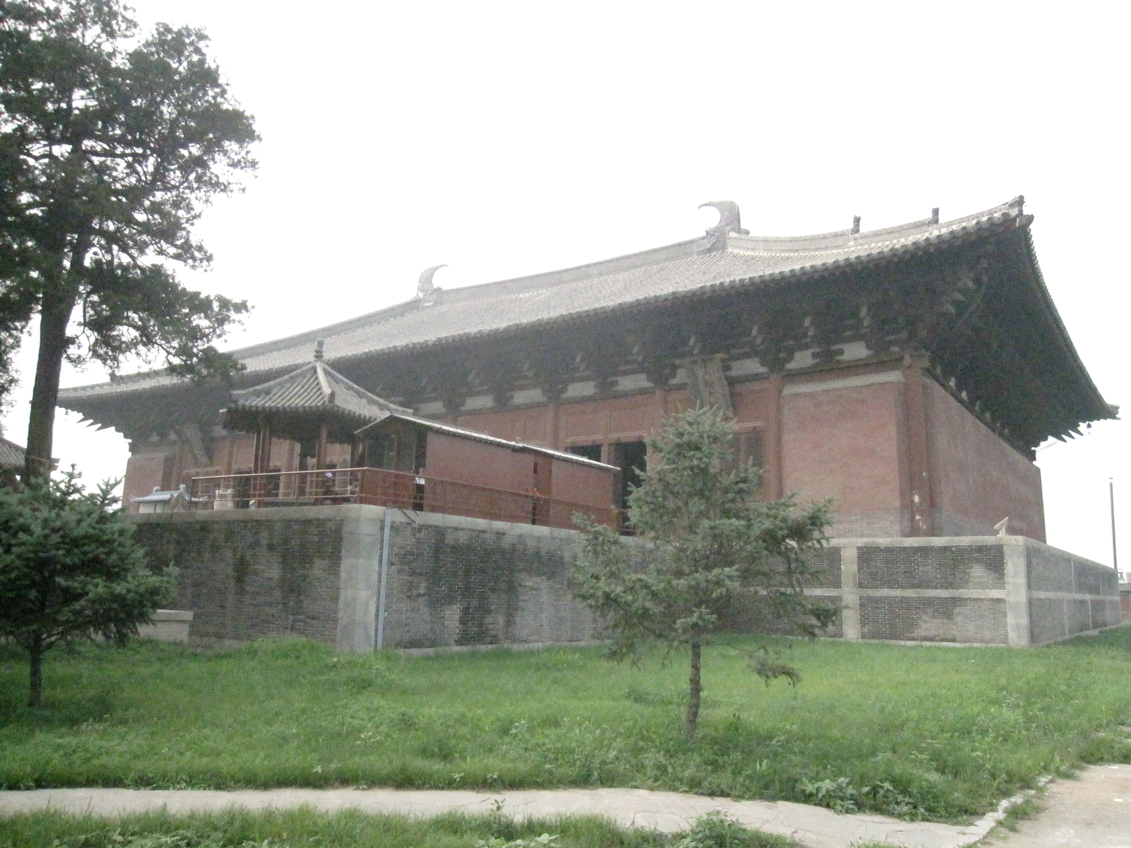 The Daxiongbao Hall of Fengguo Temple, Yixian, Liaoning China